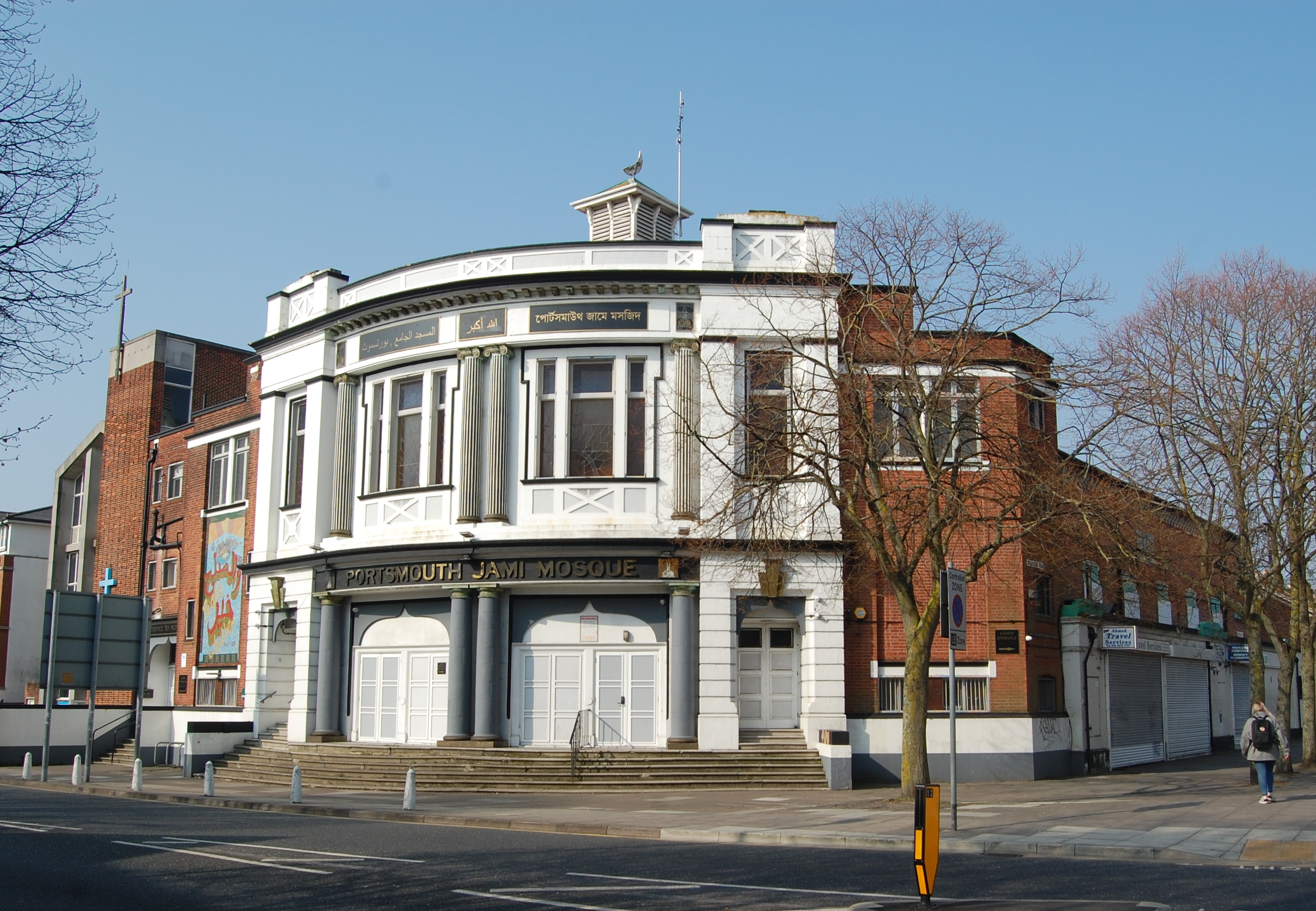 Portsmouth Jami Mosque, Victoria Road North, Southsea, City of Portsmouth, England. A former cinema at a prominent road junction in Southsea; converted into a mosque in the early 21st century.